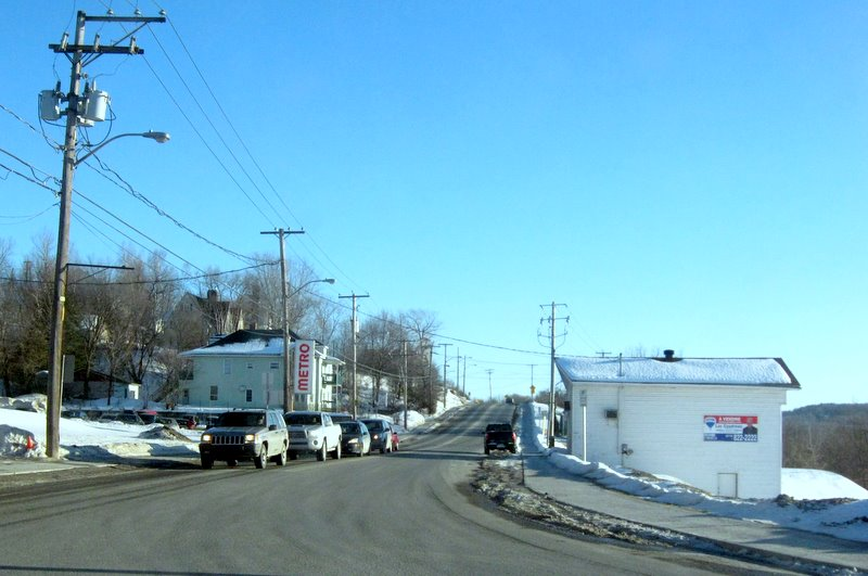 Route 143 Windsor